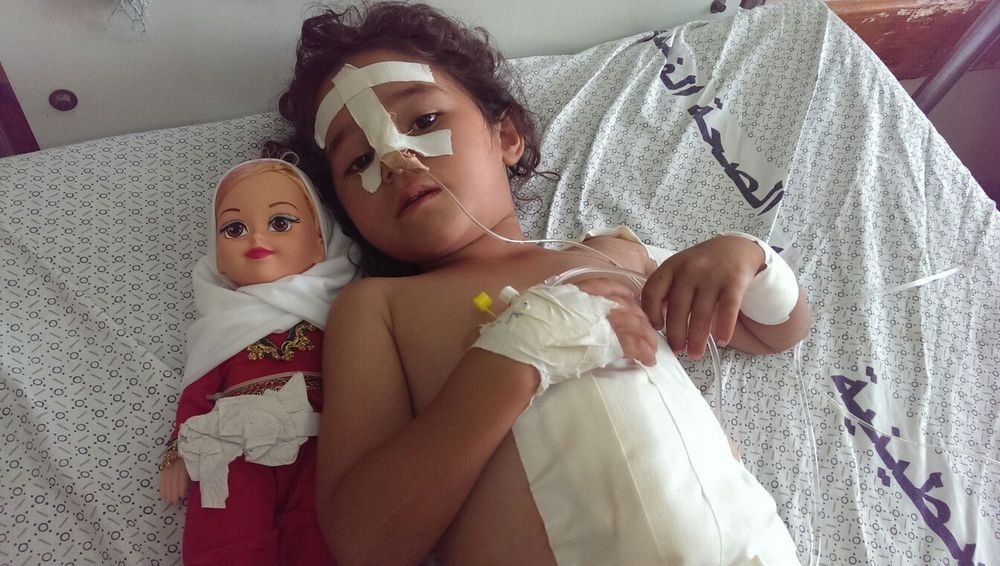 Description from B'Tselem source: "Gaza Strip, July 2014: A constant state of emergency According to B’Tselem’s initial inquiries, by yesterday evening (14 July 2014) at least 172 Palestinians had been killed in Israel’s airstrikes on the Gaza Strip. This number includes 34 minors (eight younger than 6 years old), 20 women (under 60) and 10 senior citizens. Our field researchers in Gaza have been working ceaselessly, night and day, to document events. Our field researchers in the West Bank have been lending a hand by collecting testimonies over the phone. Our office staff has been processing and verifying information, and trying to convey the incomprehensible scope of the infringement on human rights. The following seven photos were taken by our field workers in Gaza. They include images from the Kaware’ family home, where eight people, including six minors, were killed, and from the Hamad family home where six members of that family, including one girl – a minor – were killed." Photo caption from source: "Shaymaa al-Masri, five years old, at a-Shifaa Hospital, Gaza. Shaymaa was injured when her uncle’s house was bombed in the early afternoon of 9 July 2014. Her mother and two brothers, who had been with her visiting the uncle’s home, were killed in the airstrike. Also killed was her cousin Amjad Hamdan, who was known to be wanted and may have been the target of the attack."